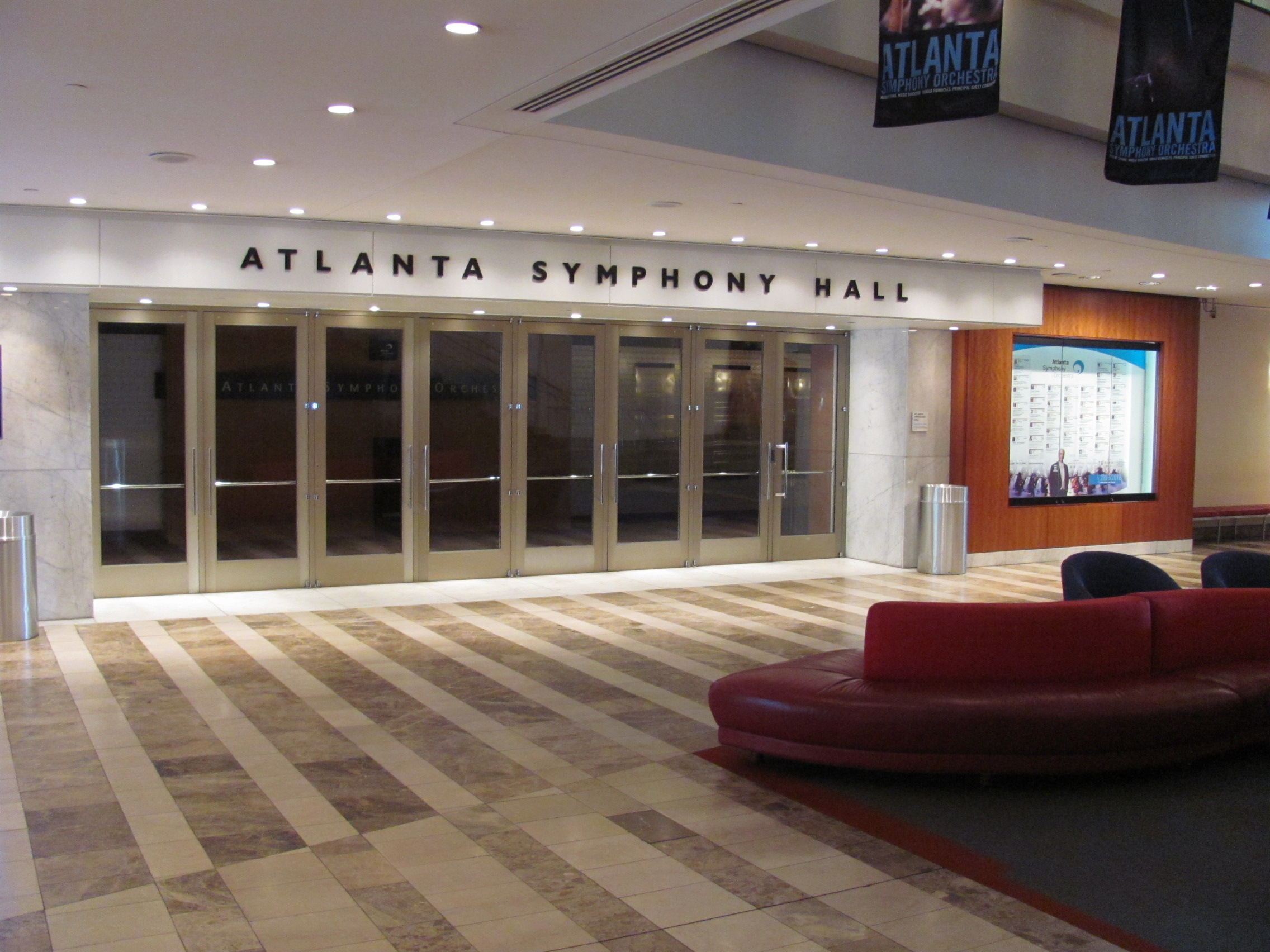 Atlanta Symphony Hall lobby, Midtown Atlanta Georgia